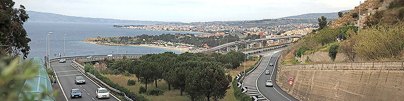 Reggio Calabria - panorama that show the end of A3 highway where RA04 begins connecting with SS 106